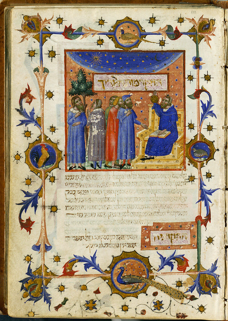 Cod. Heb. 37 from the Royal Library in Copenhagen, a Hebrew translation of Maimonides Guide of the Perplexed (originally authored in Arabic) dating from 1347 Maimonides teaches about the 'measure of men' (compared to the earth and the universe, men is very small)